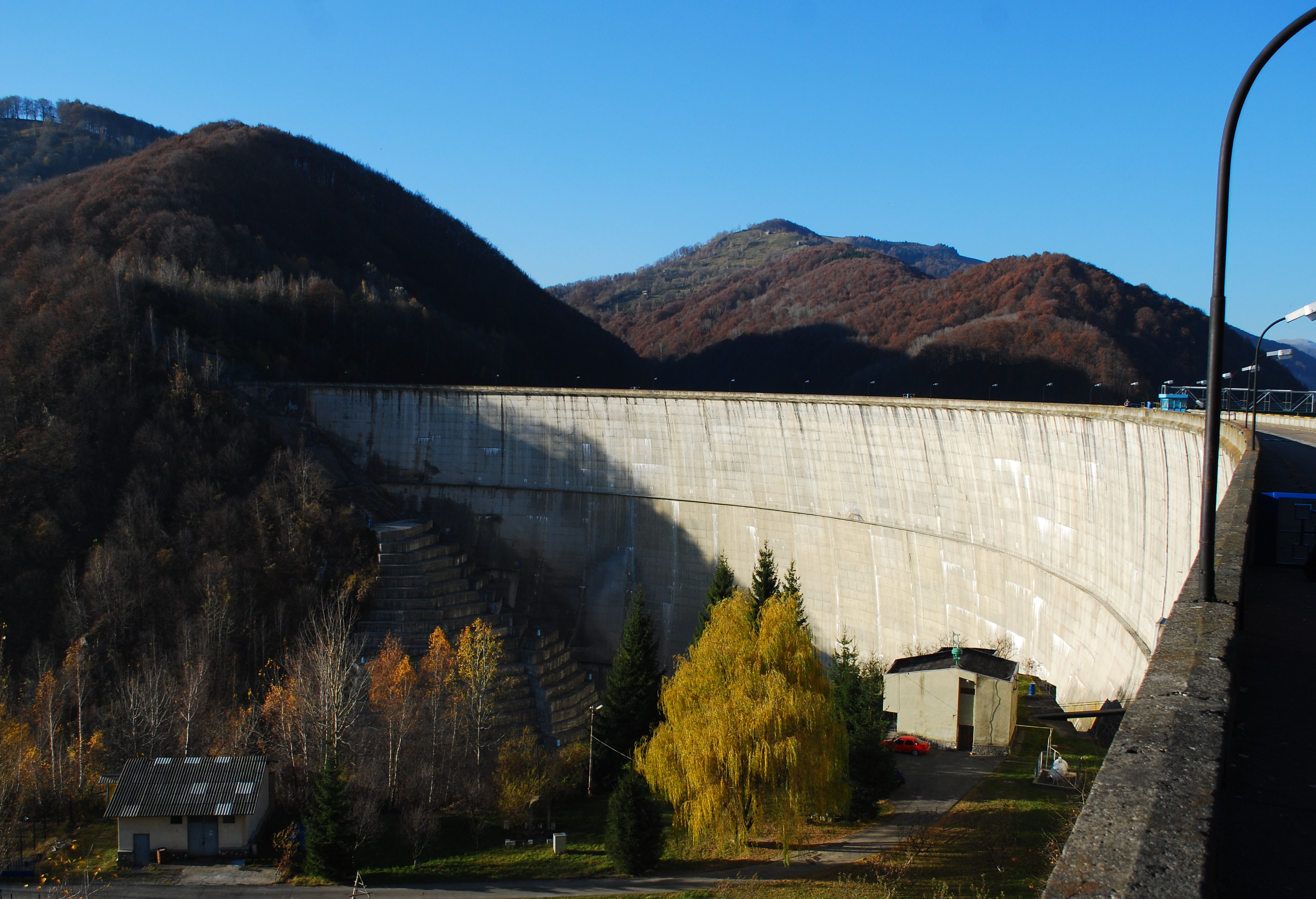 The Paltinu dam, on Doftana River, Prahova County, Romania